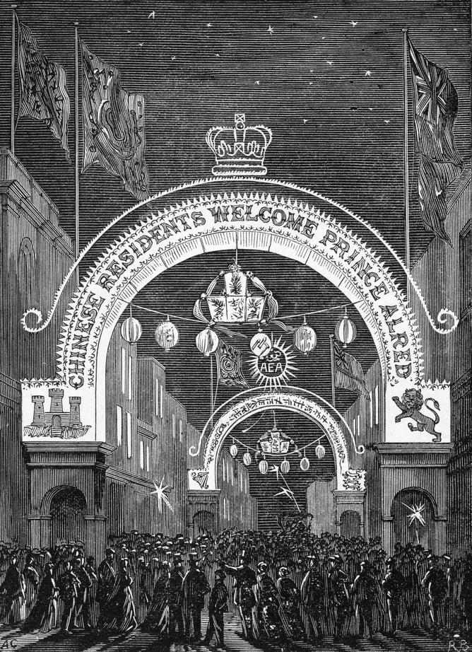 Chinatown (Little Bourke Street), Melbourne, decorated for the arrival of Prince Alfred.